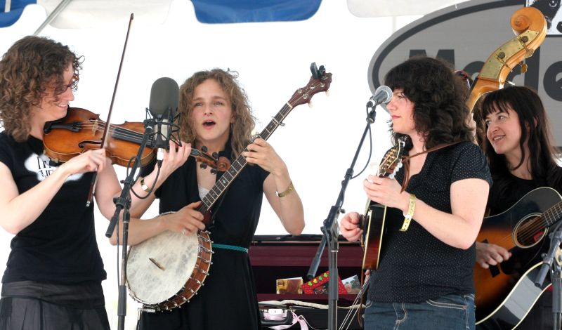 Uncle Earl in 2007; from left to right: Rayna Gellert, Abigail Washburn, KC Groves and Kristin Andreassen Photograph by Forrest L. Smith, III. Taken April 27, 2007.